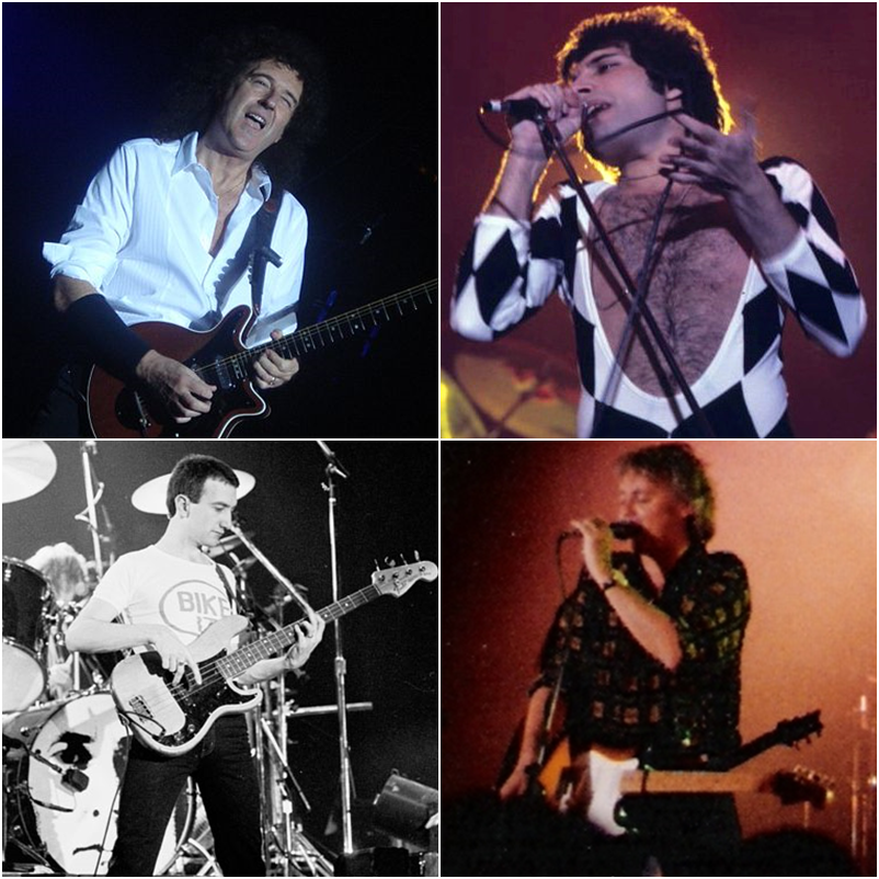 The four members of Queen.